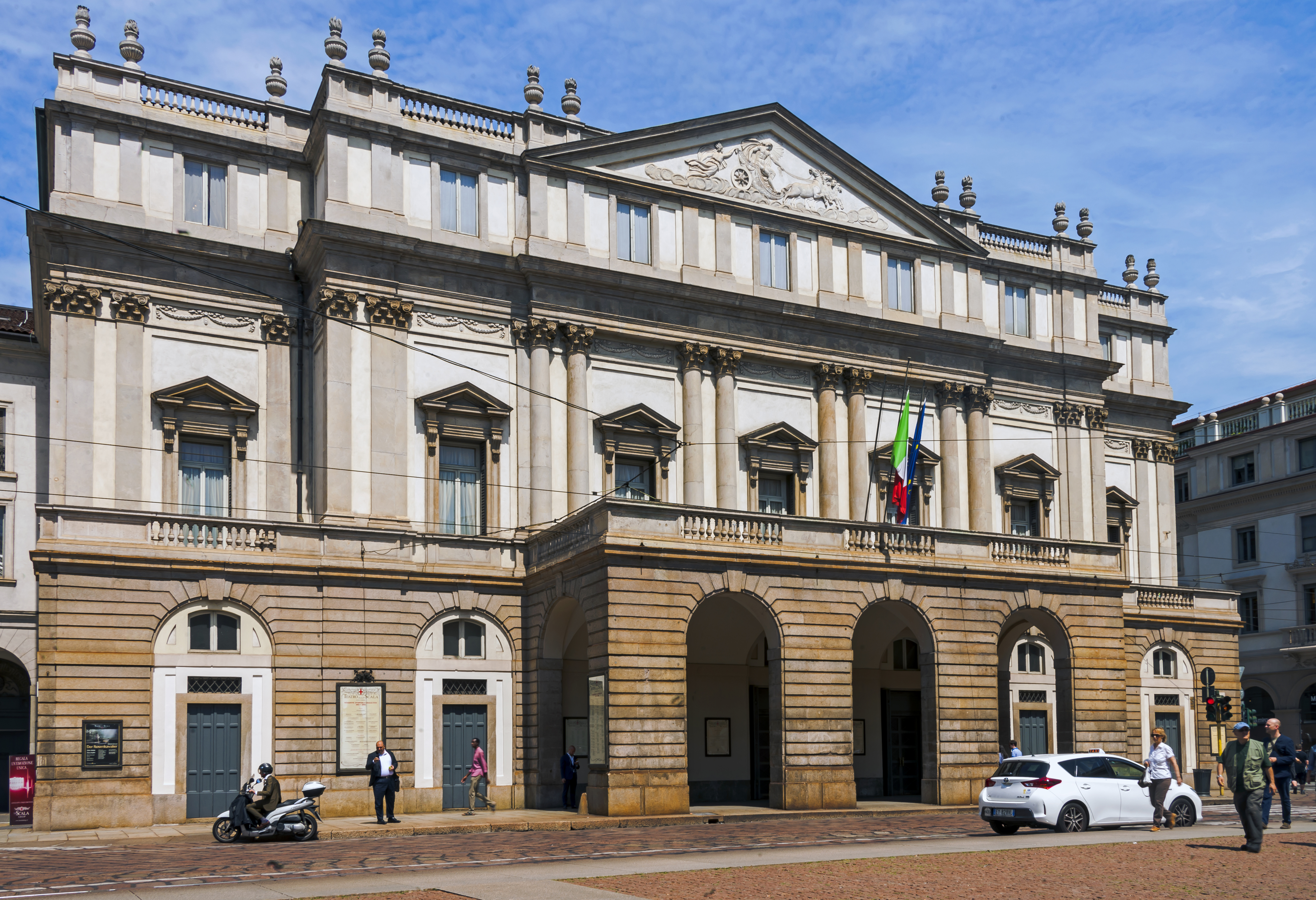 La Scala, Milan